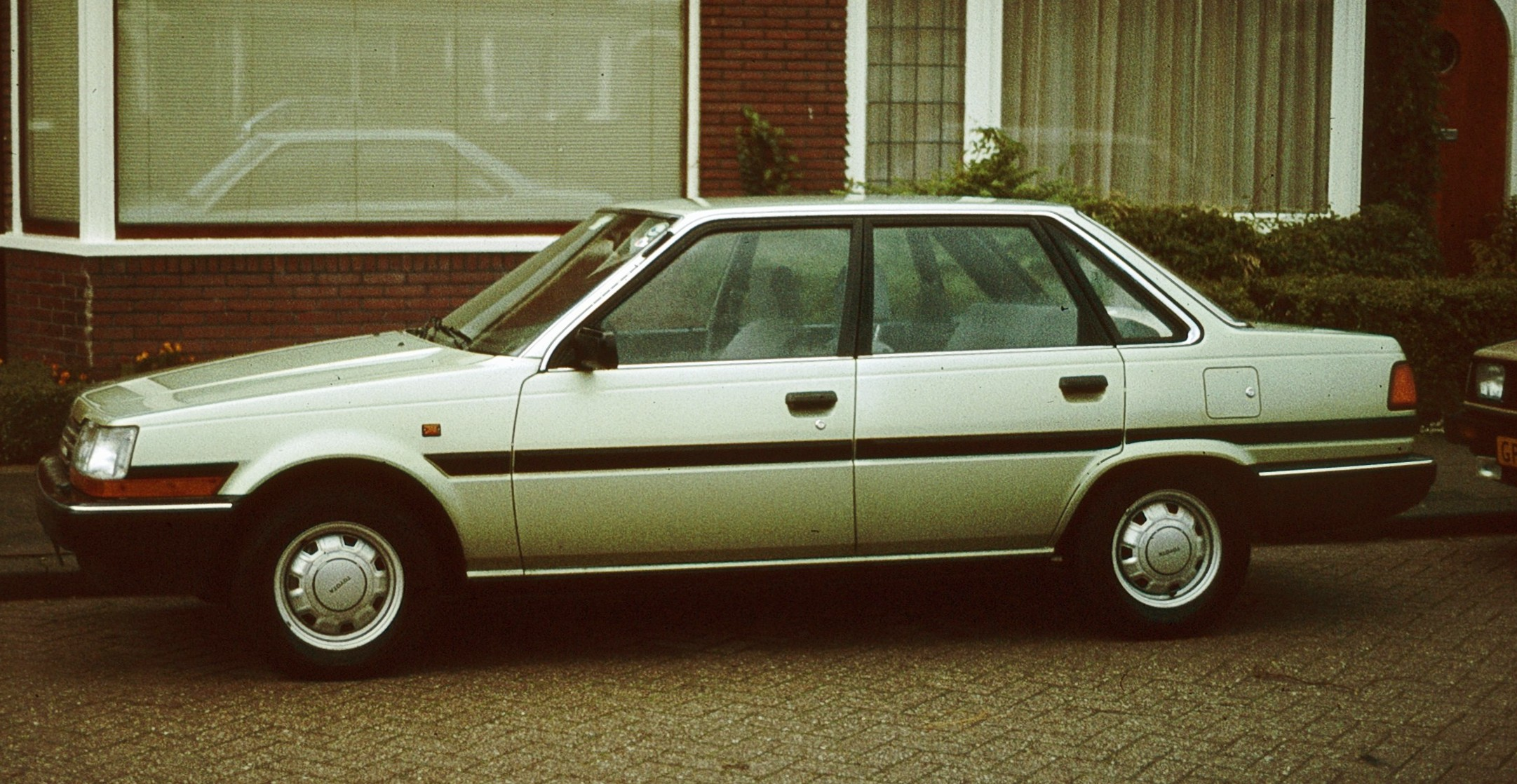 Toyota Carina in Utrecht